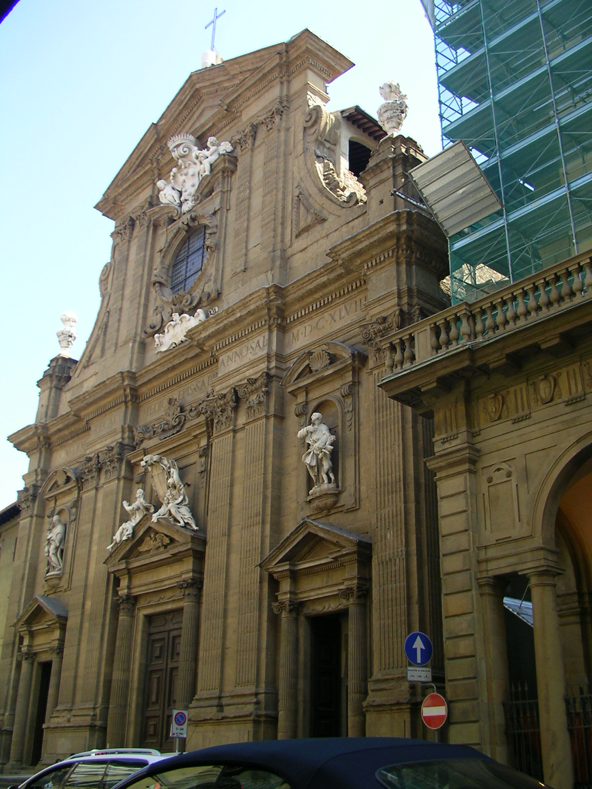 San Gaetano church (front) in Florence, Italy